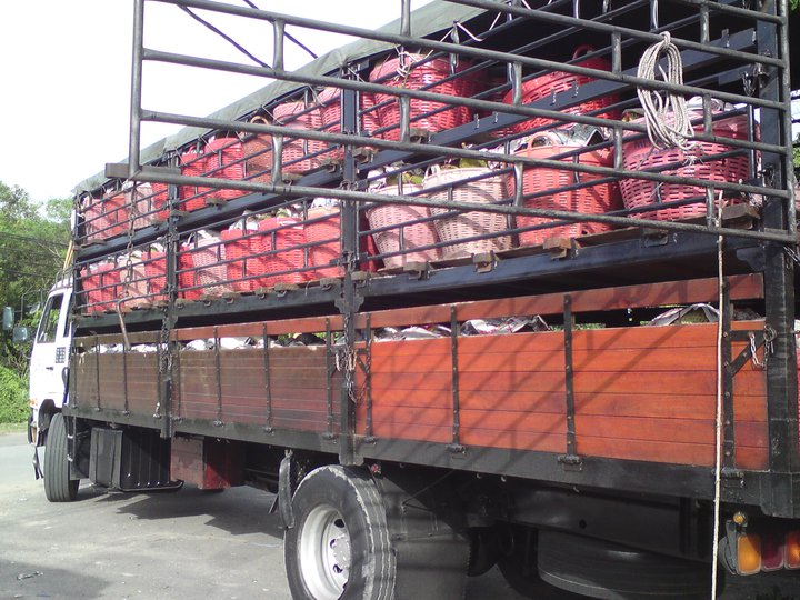 Village